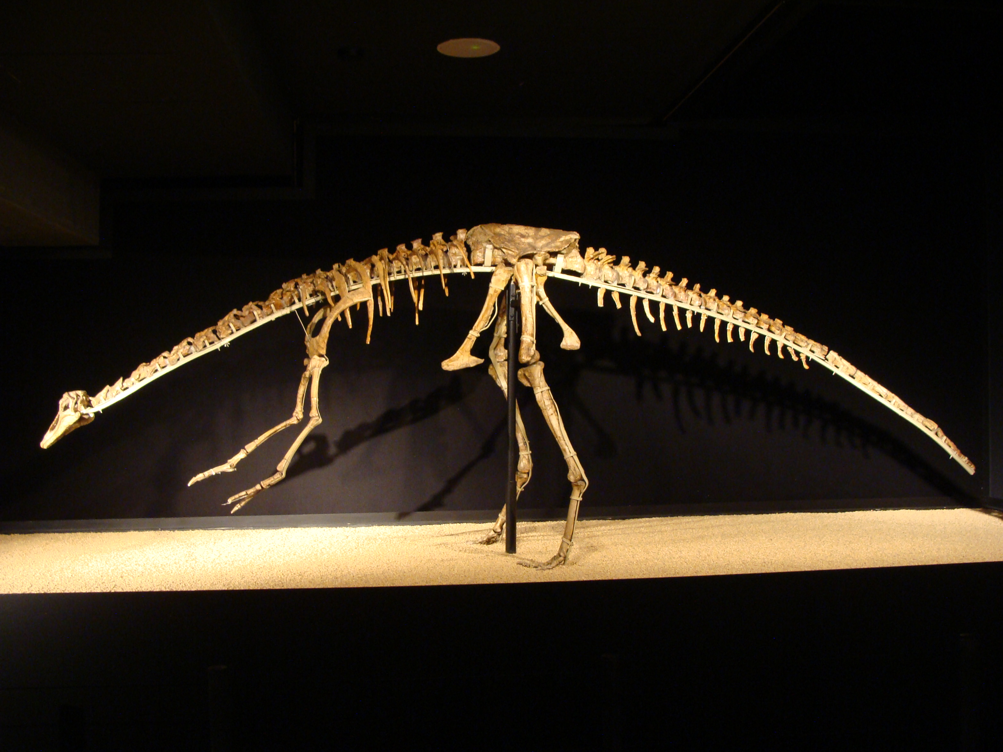 Anserimimus planinychus in the exhibition "Dinosaures. Tresors del desert de Gobi" ("Dinosaurs. Treasures of Gobi Desert") in CosmoCaixa, Barcelona.